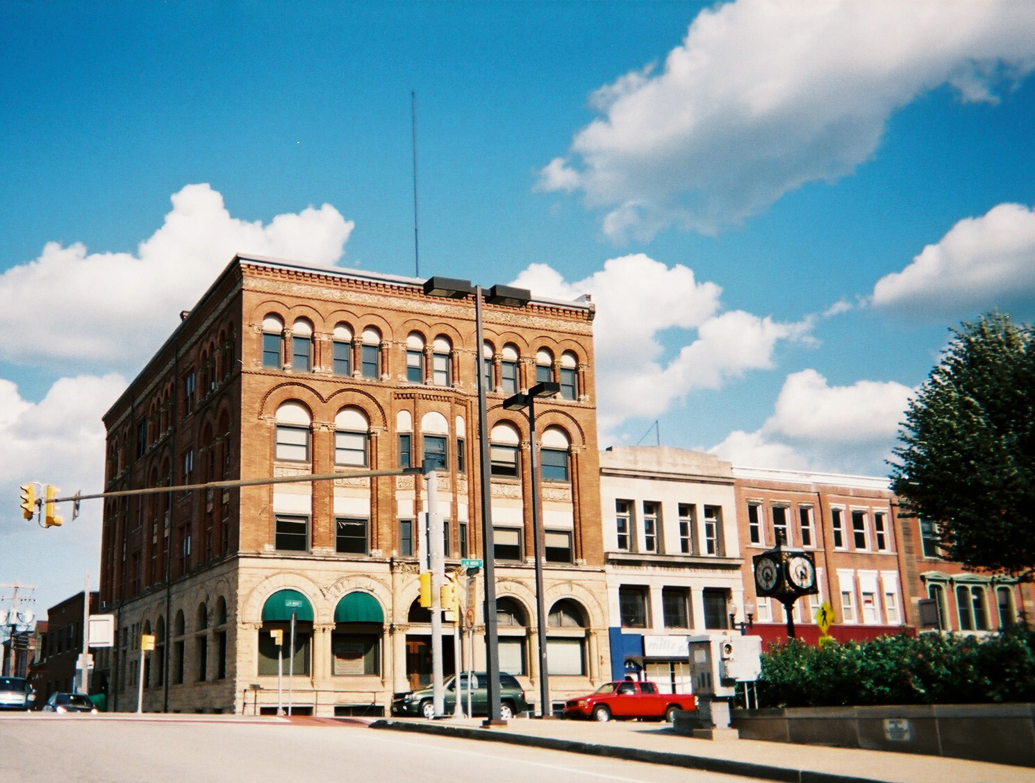 The tallest building is the "Bank and Trust Building", built 1896, 41 North Main Street (corner of East Otterman Street), Greensburg, Pennsylvania. The gray building to the right of Bank and Trust is the former "Merchants & Farmers Bank", built in the 1910s (39 North Main Street). The red brick building on the right, with six windows across the top floor, is the "Brown Building", circa 1886 (35-37 North Main Street).